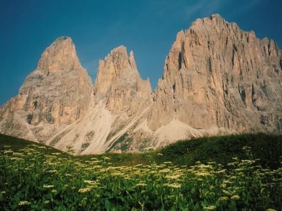 Sassolungo group seen from Passo Sella (direction west): Grohmannspitze, Fünffingerspitze, Langkofel (Sassolungo) (from left to right))